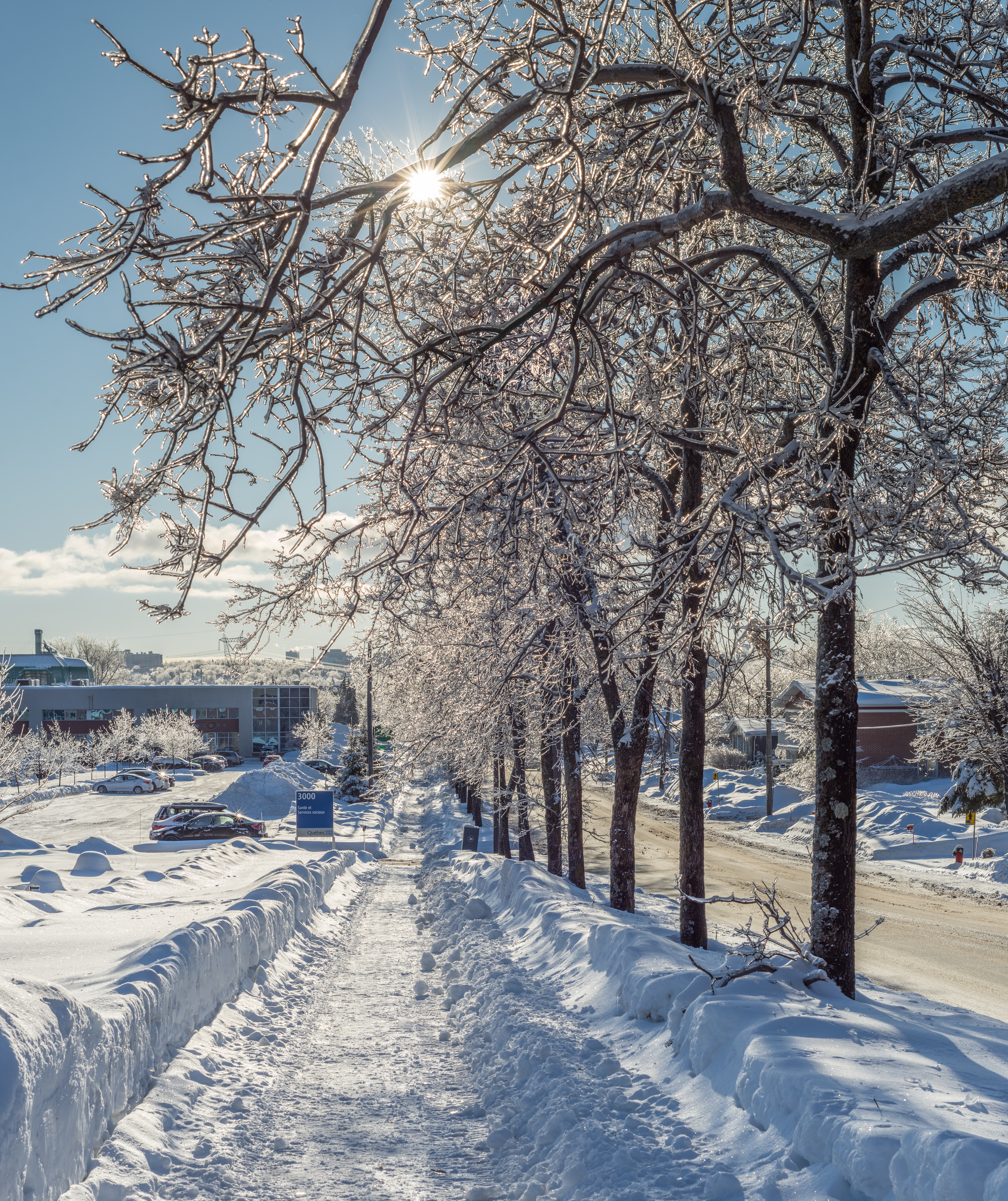 Glaze on 3000, av Saint-Jean-Baptiste, Québec, 25 January 2019.